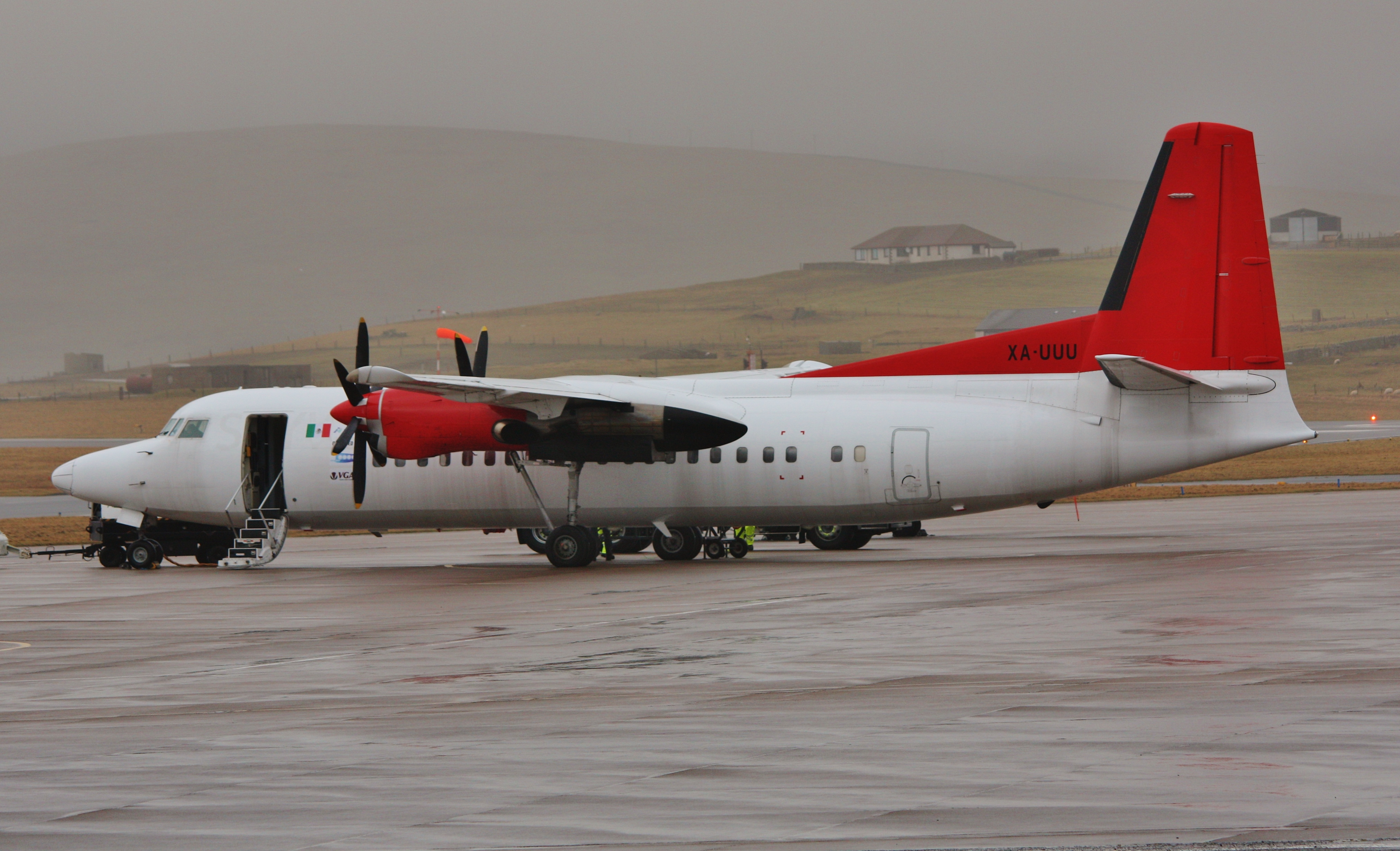 Refueling at Sumburgh, must be a first time visit !